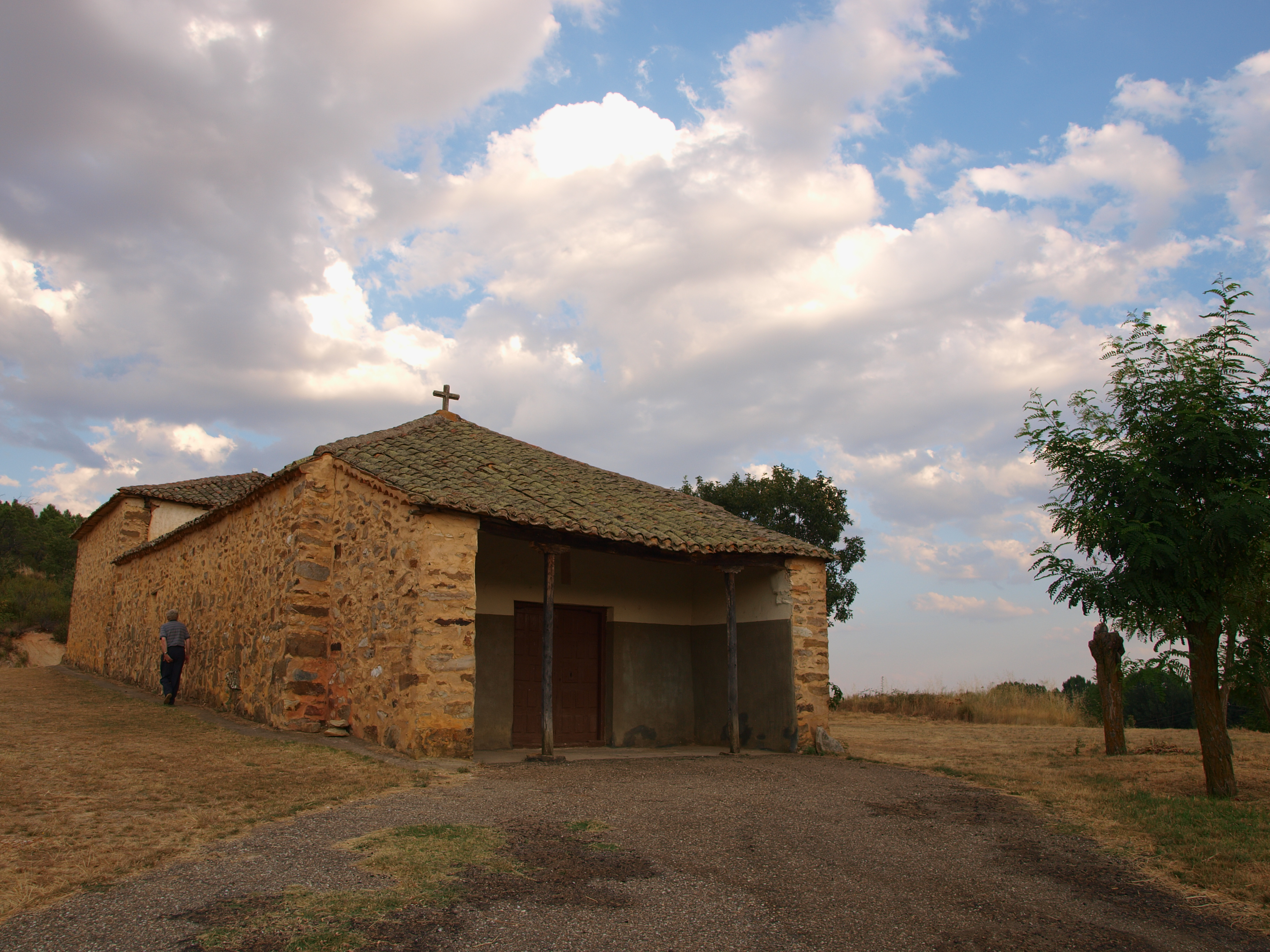 The church of San Mamés, just out of the spanish village of Ayoó de Vidriales, province of Zamora (Spain).